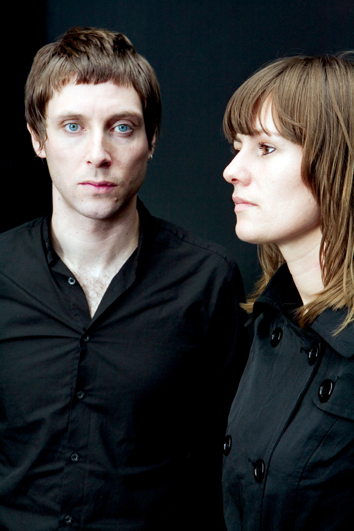 Prinzhorn Dance School_02 Photo of the duo together